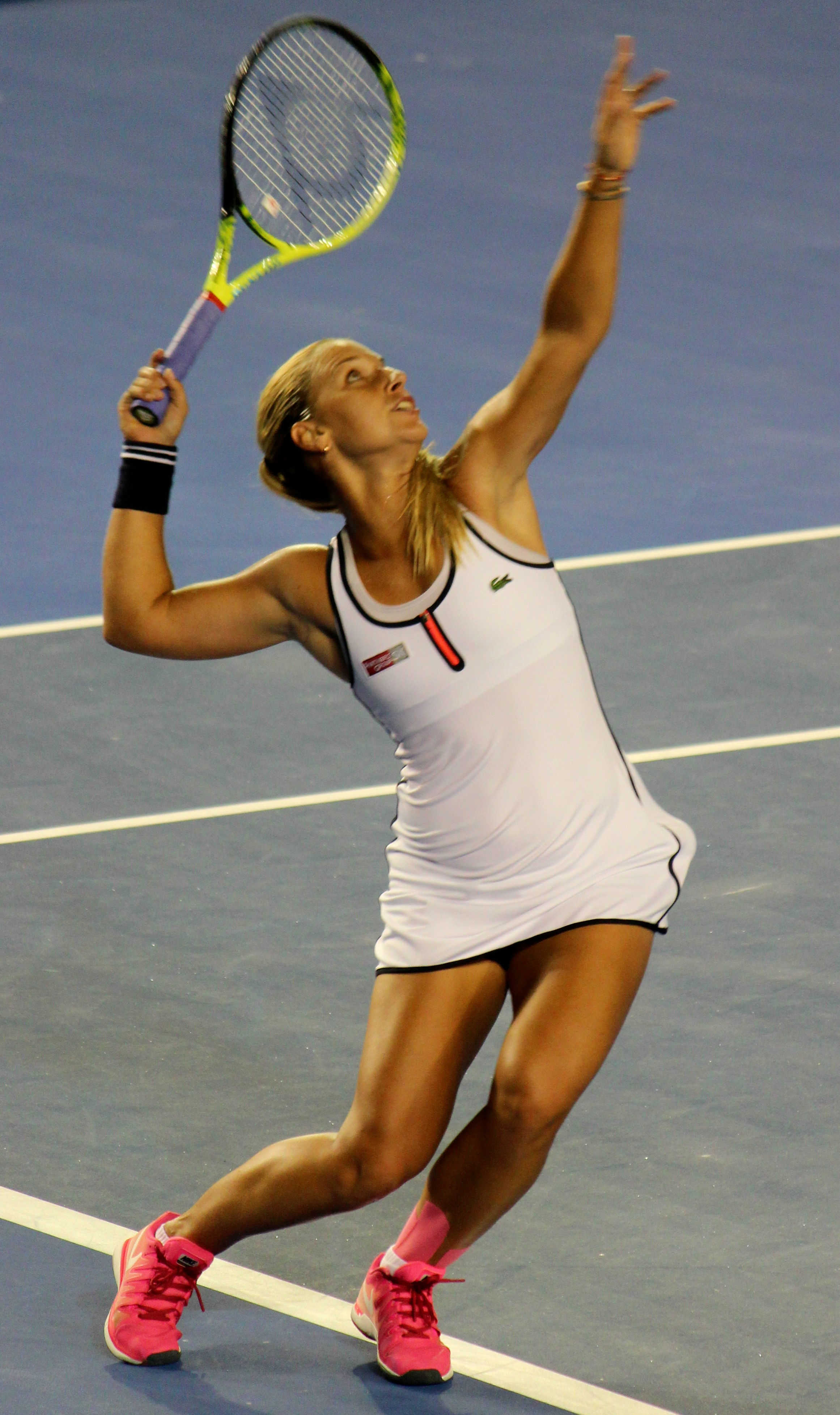 Dominika Cibulková at the Australian Open 2015